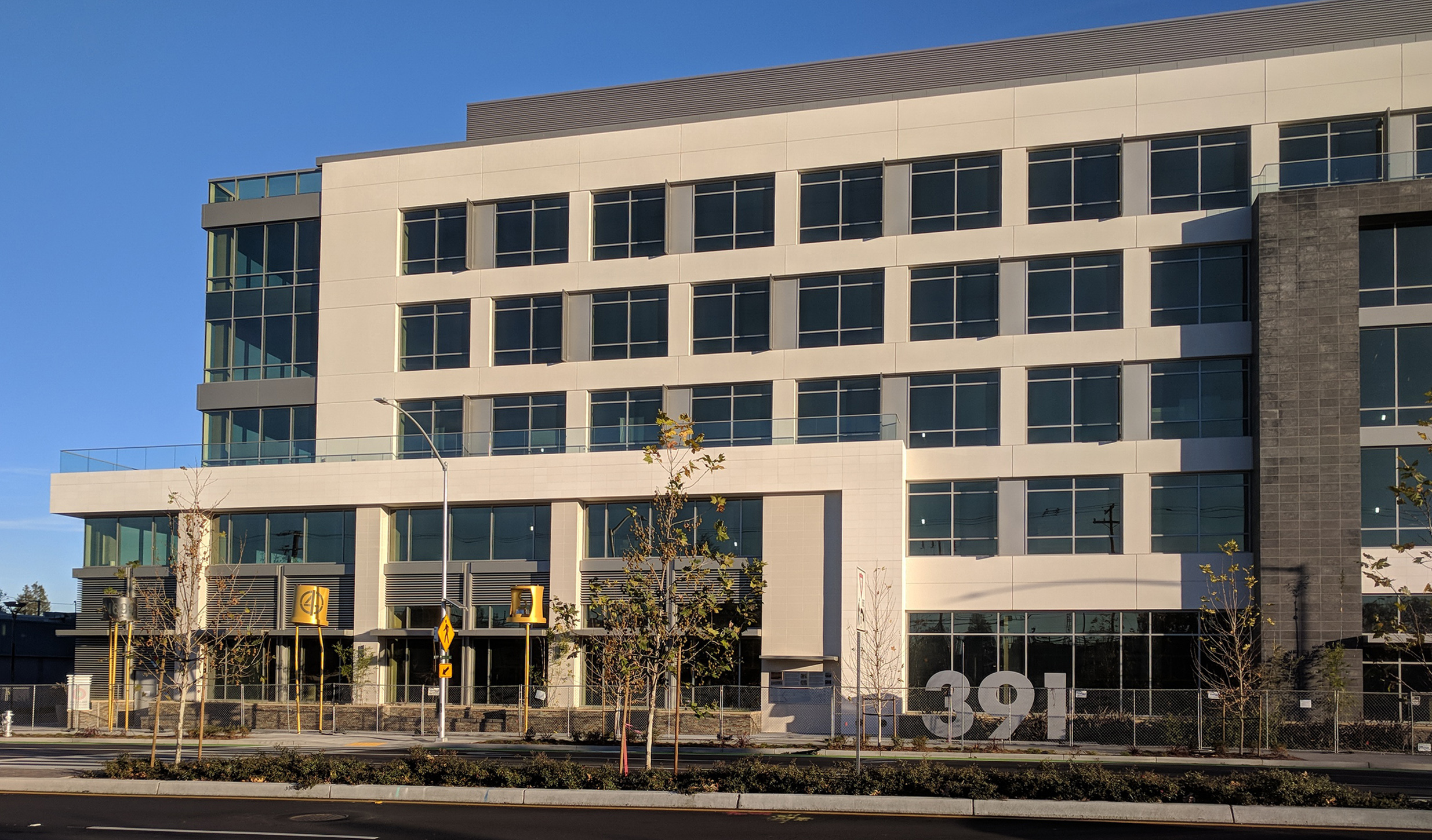 The 391 San Antonio Road, Mountain View, site of the Shockley Semiconductor Laboratory, in Dec. 2017. The new project being completed here includes a display of sculptures of packaged semiconductors, including a transistor and a diode, standing above the sidewalk (three are seen at the left here).